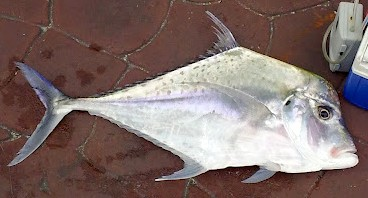 Taken from Broome, WA